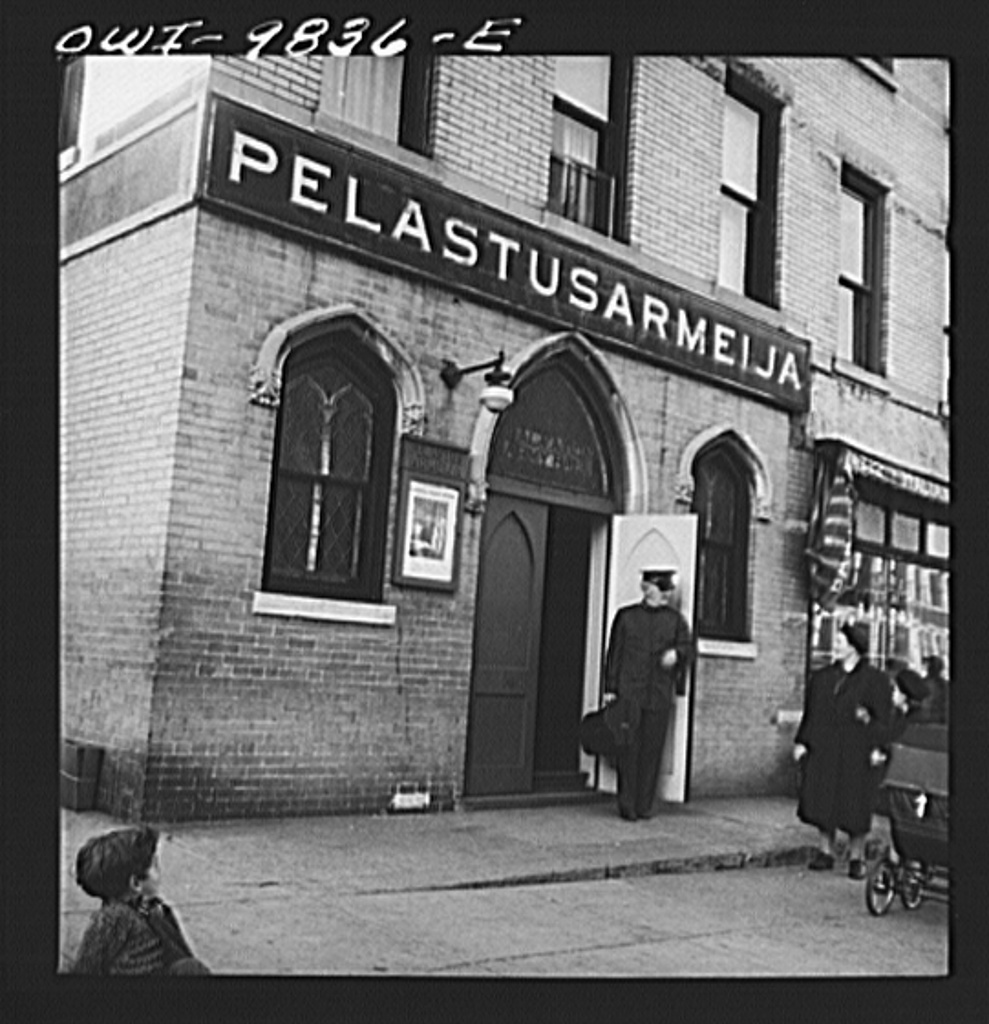 Title: Brooklyn, New York. A section of the city largely inhabited by Finnish-Americans, near Thirty-ninth Street and Eighth Avenue, known as Finn Town. Finnish branch of the Salvation Army